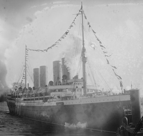 Victoria Luise arrived at New York